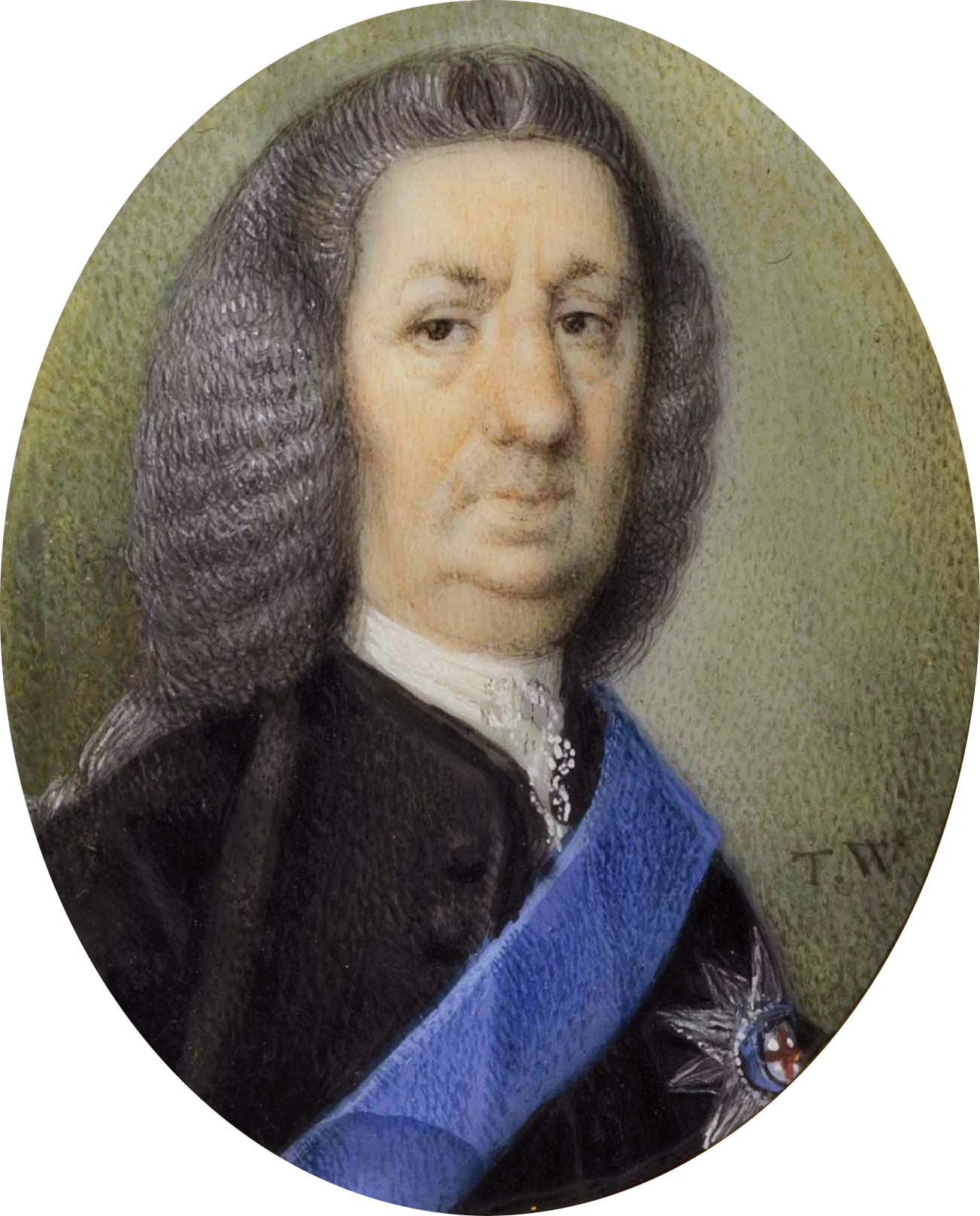 Daniel Finch (1689-1769), 8th Earl of Winchilsea, 3rd Earl of Nottingham on ivory 4.8 cm signed b.r.: T.W.